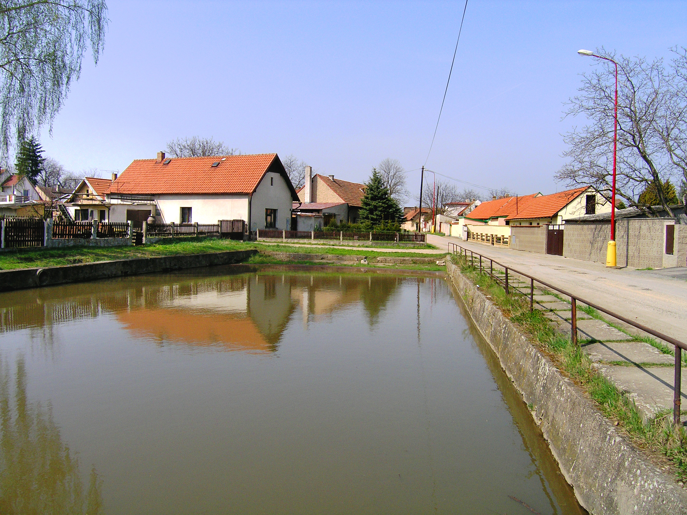 Common pond in Brázdim, Czech Republic